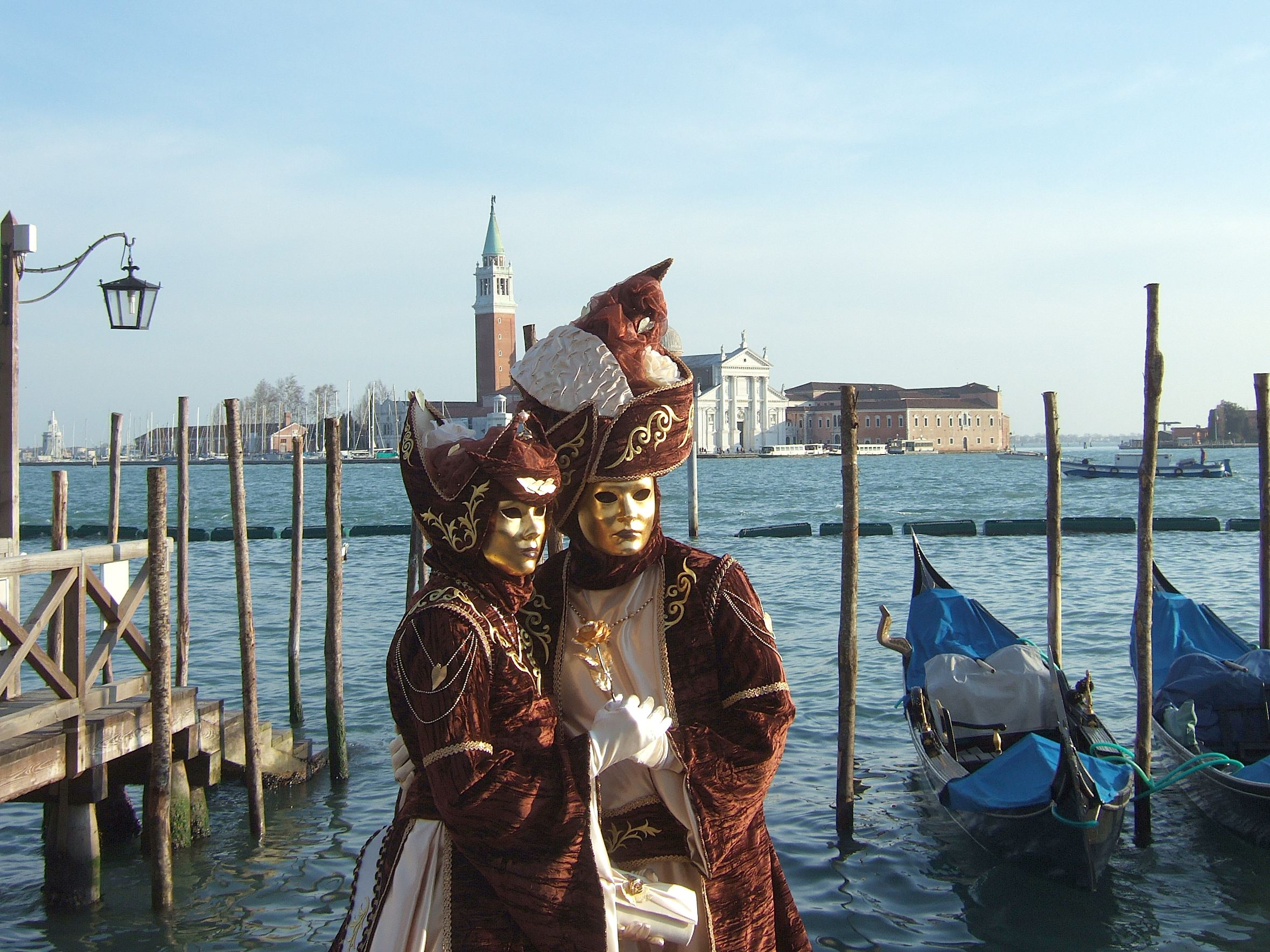 Masks at Carnival of Venice 2010